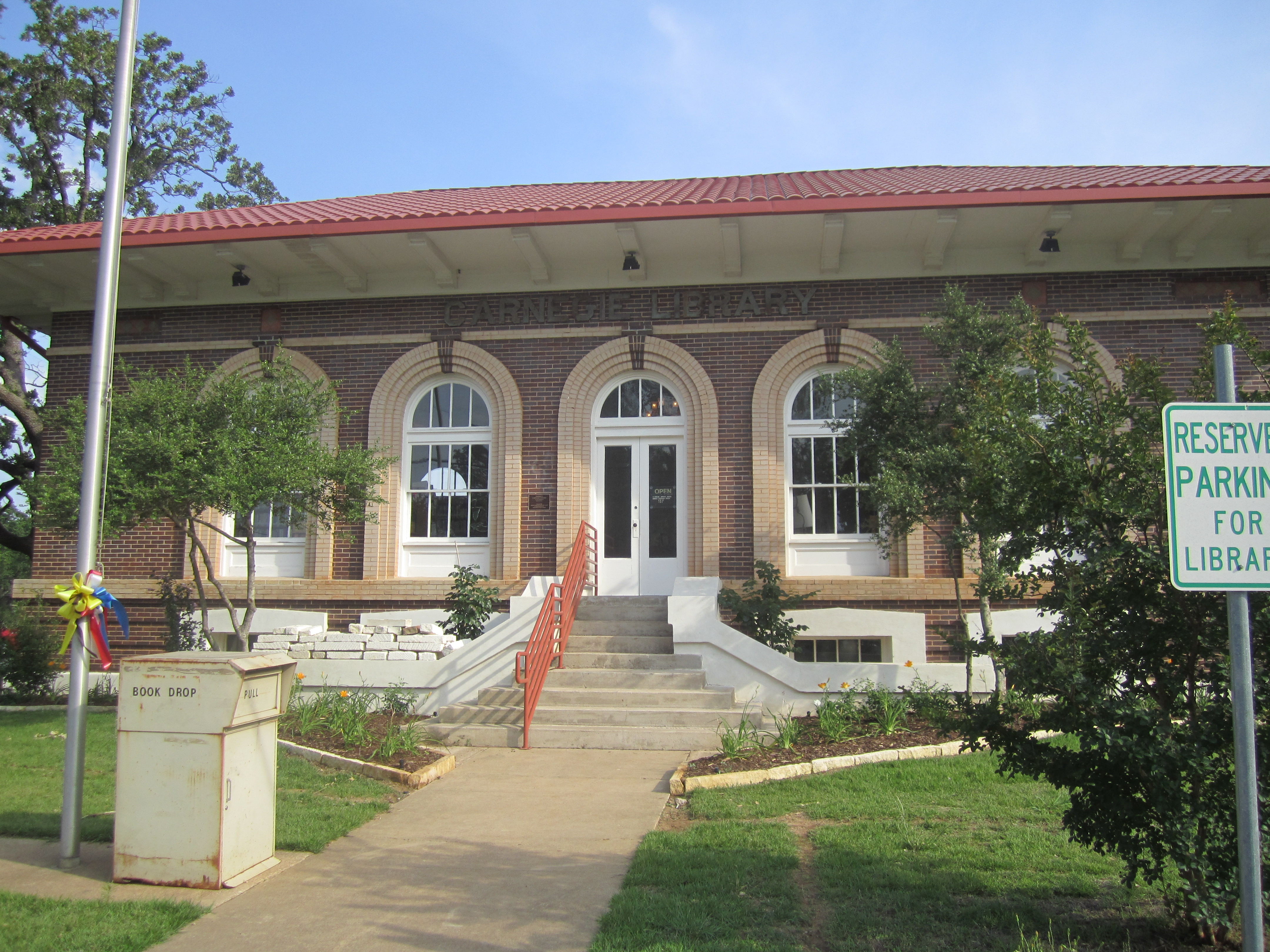 I took photo of Carnegie Library in Franklin, TX, with Canon camera.